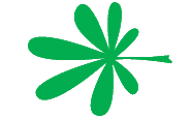 Leaf morphology digitate (extraction of Leaf_morphology_no_title.png)